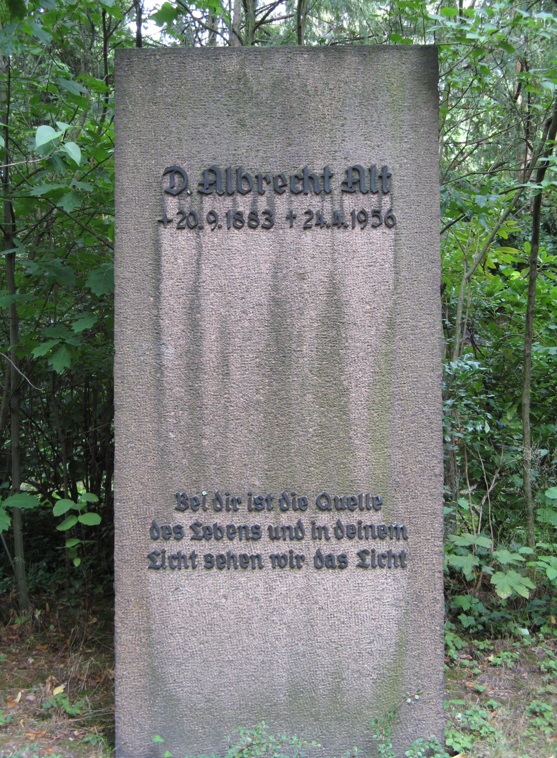 Gravestone of theologian Albrecht Alt at Südfriedhof (south cemetery) Leipzig.